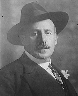 Spanish Basque painter Ignacio Zuloaga y Zabaleta (1870-1945)